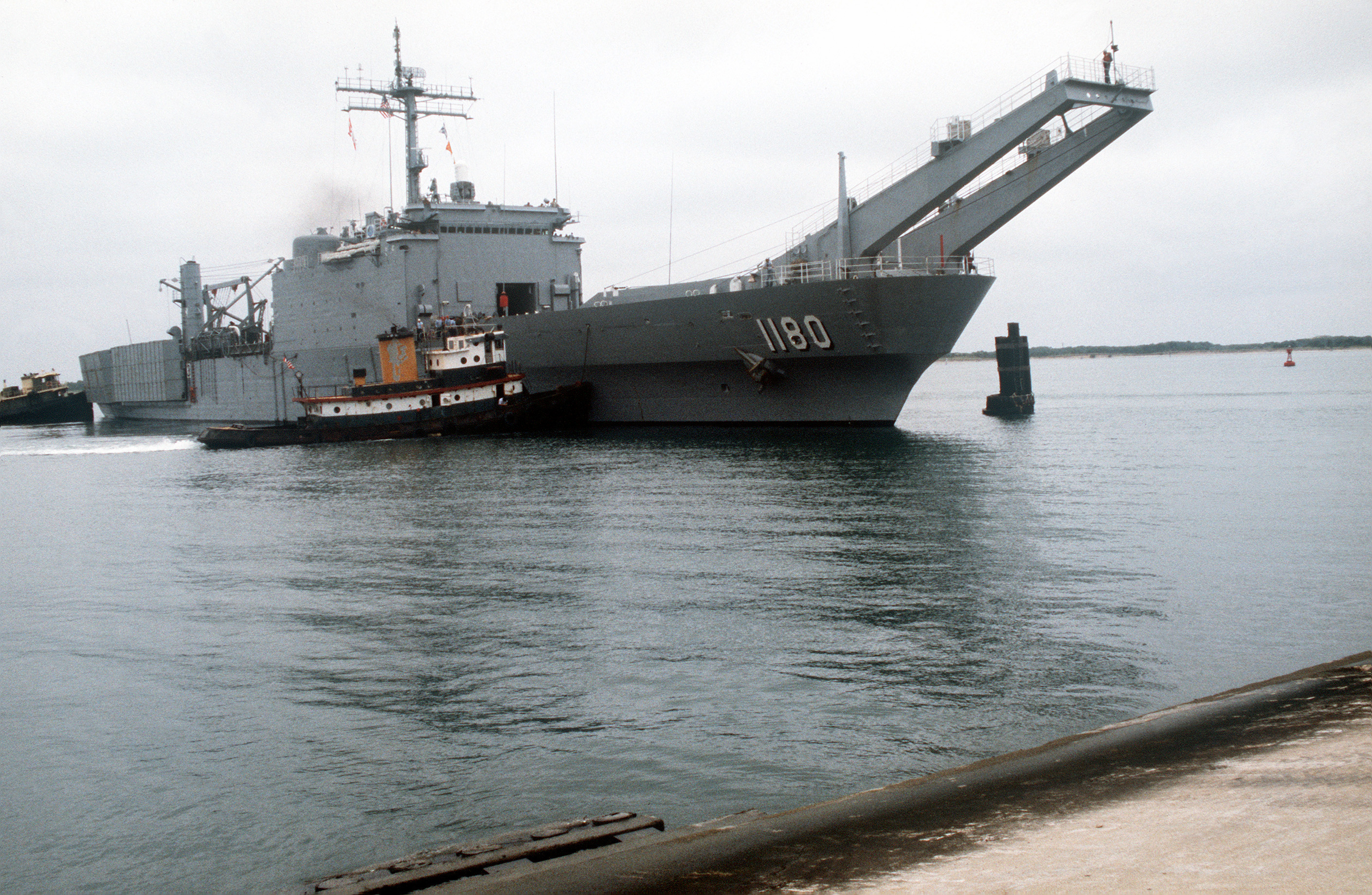 Harbor tugs position the tank landing ship USS Manitowoc (LST-1180) into port as the ship prepares to take on Marines headed for the Middle East in support of Operation DESERT SHIELD.